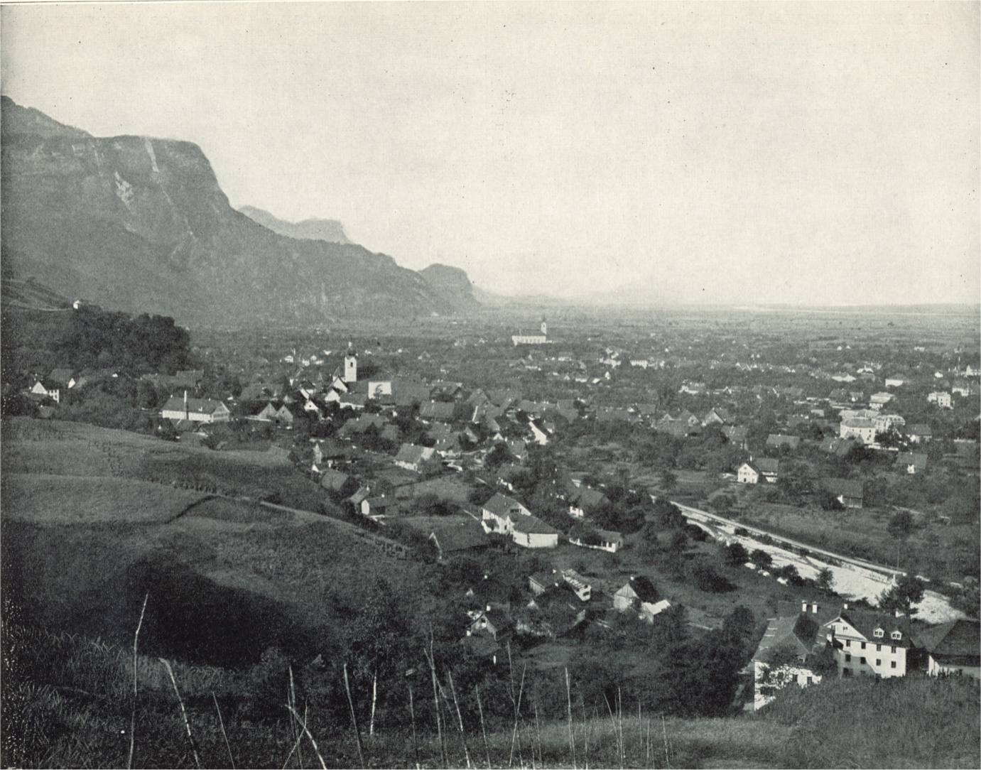 Dornbirn is the largest city in Vorarlberg, Austria.